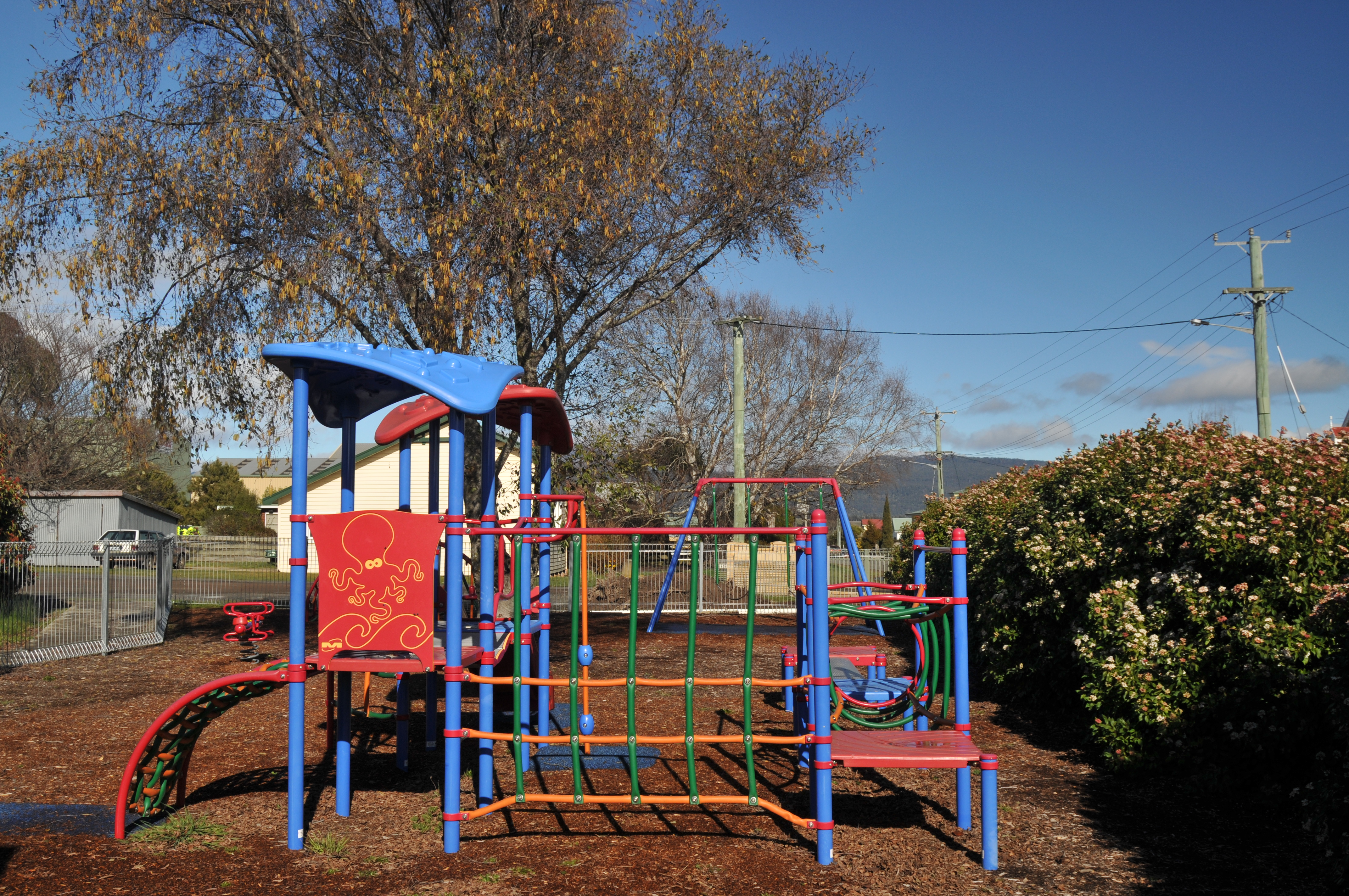 Playground next to the recreation ground at Whitemore Tasmania, Australia